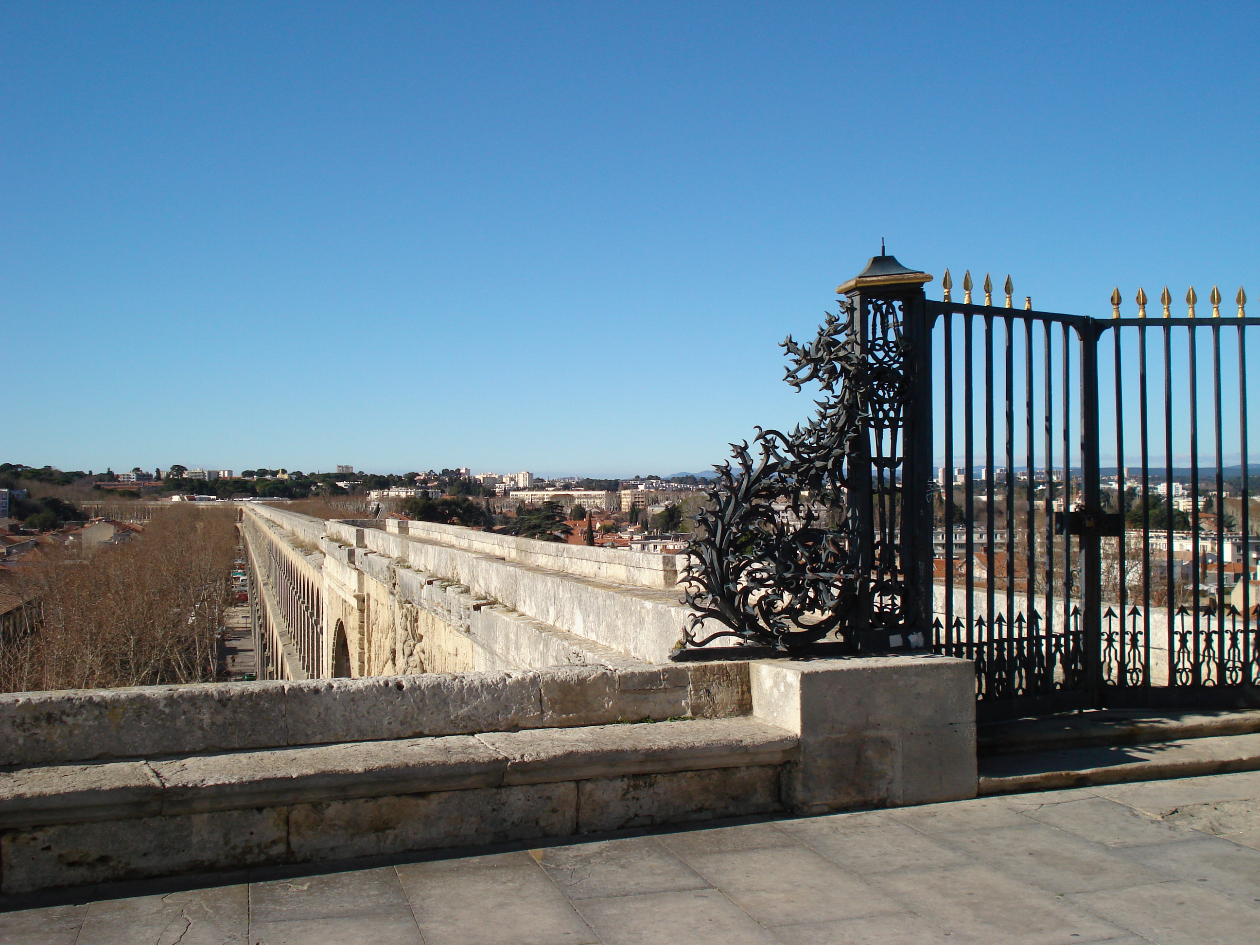 The aquaduct in Montpellier